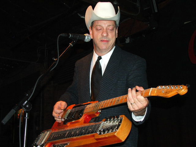 Junior Brown at Antone's in Austin (2006). Photo by Ron Baker.